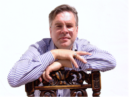 Ecma TC32-TG22 Convenor (Clemens Par)